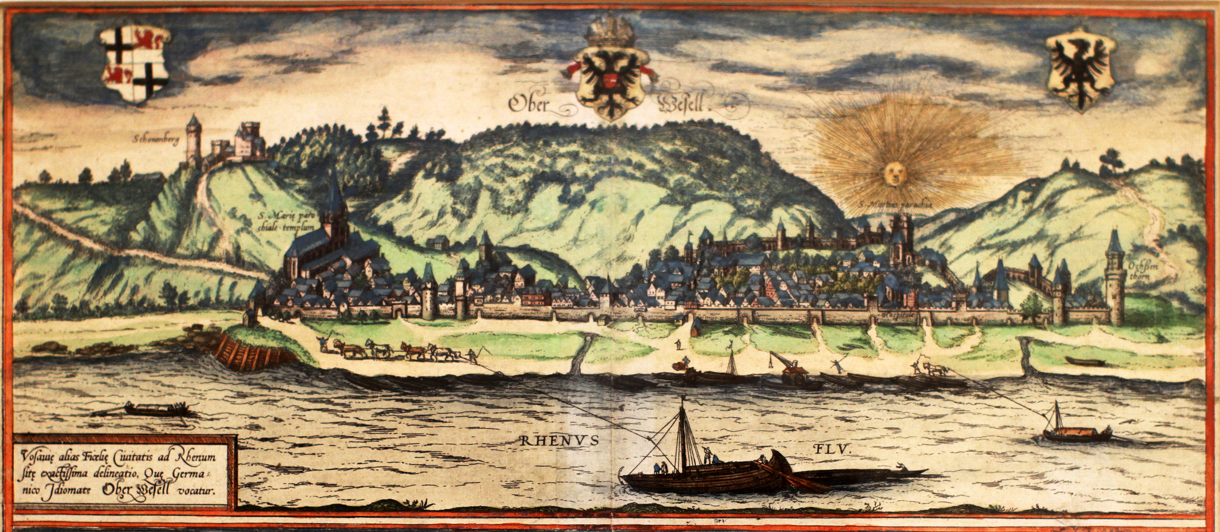 Braun & Hogenberg, 16th-century of Oberwesel